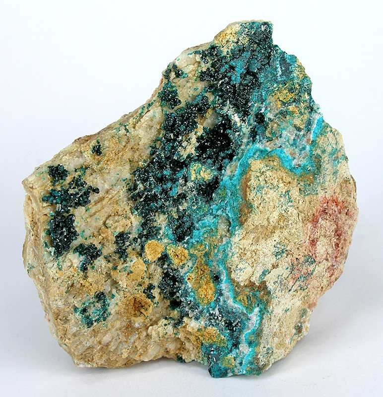 Herbertsmithite Locality: Caracoles, Sierra Gorda District, Tocopilla Province, Antofagasta Region, Chile (Locality at ) Size: 4.5 x 4.4 x 2.7 cm. This very rare copper mineral is here present as beautiful sparkling crystals to about .2 mm, like broken green glass sprinkled on a white matrix.